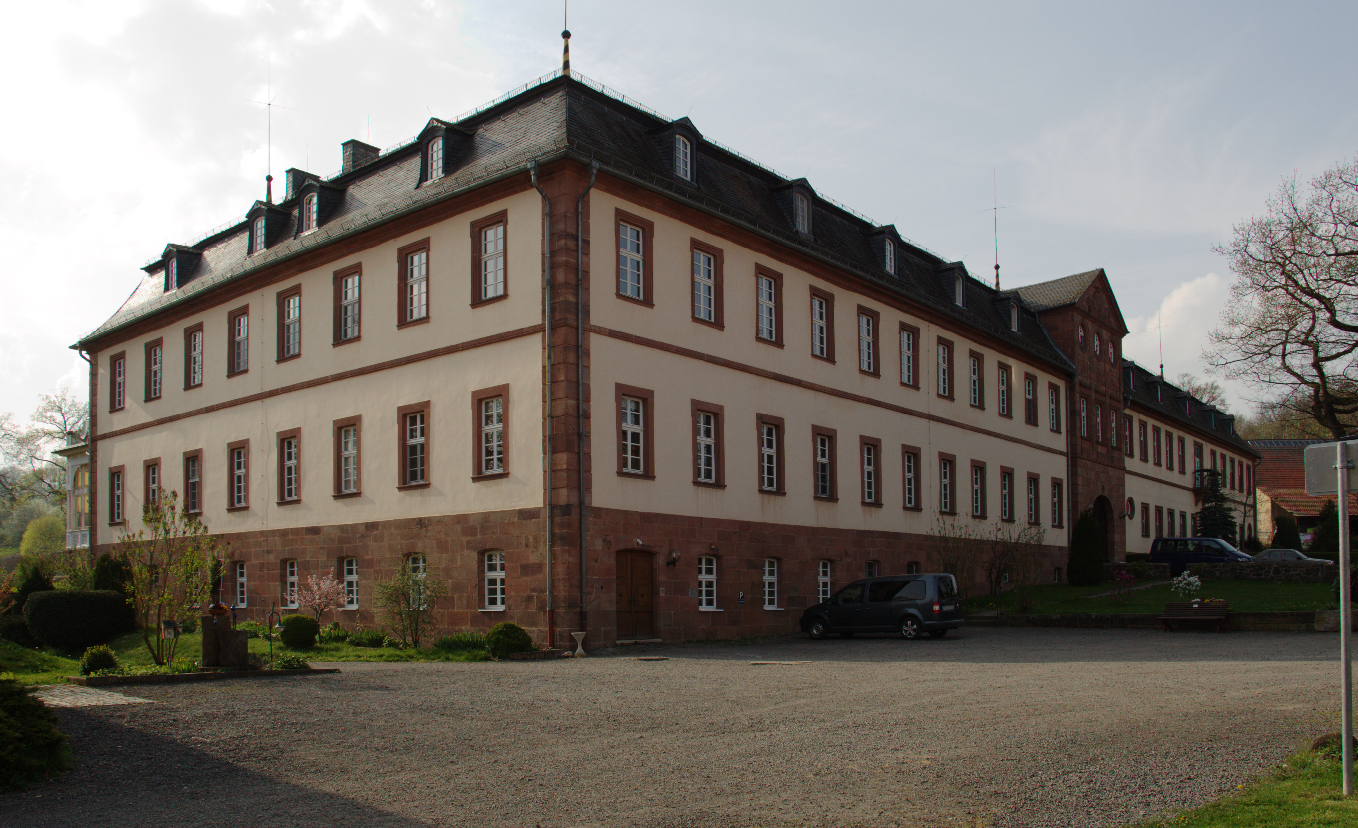 Castle in Stockhausen, Herbstein, Hessen, Germany